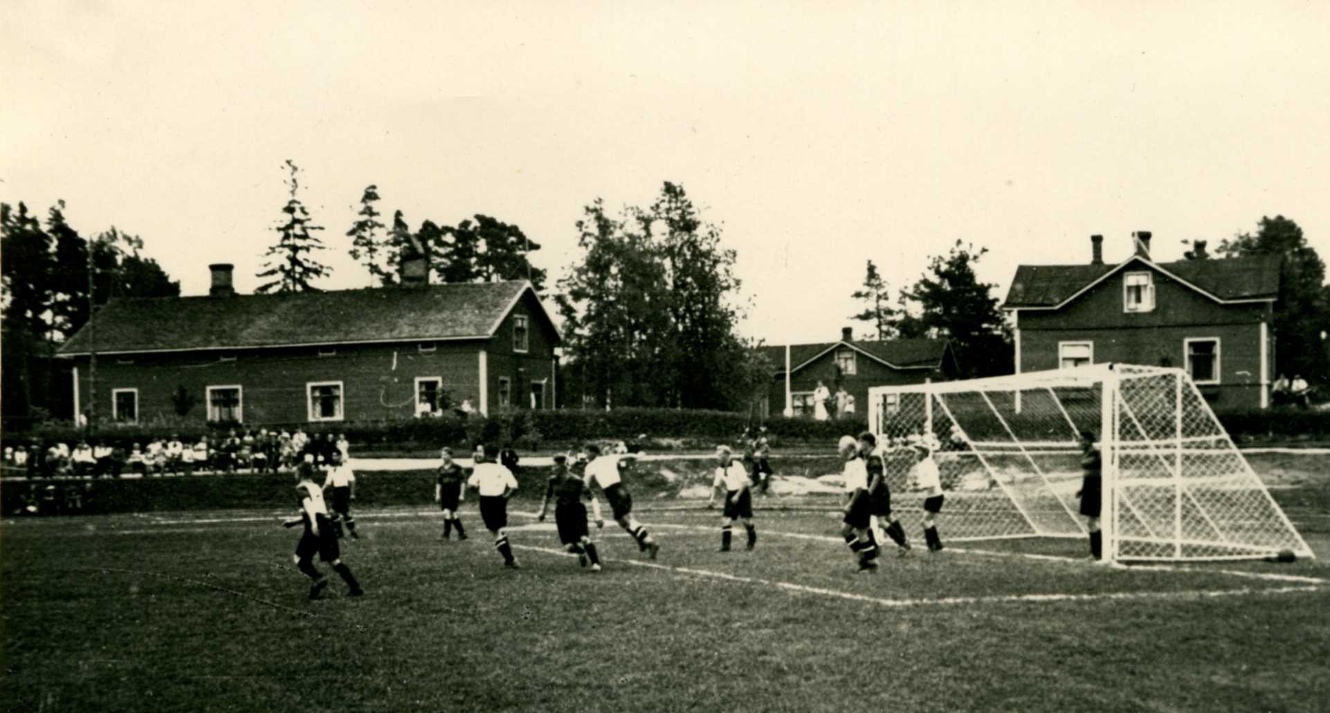 Championship football match of company Yhtyneet Paperitehtaat in Jämsänkoski, Finland in 1945